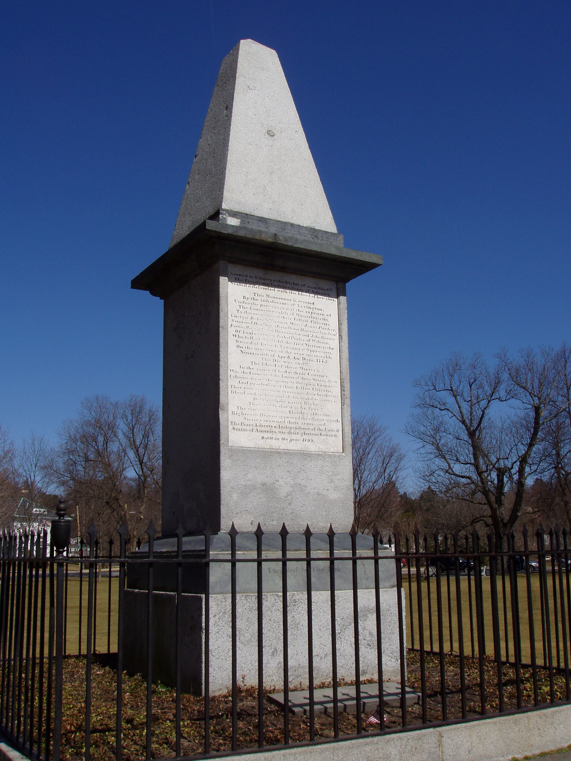 Photograph of Lexington Battle Green Monument, erected 1799 on the green in Lexington, Massachusetts, USA.